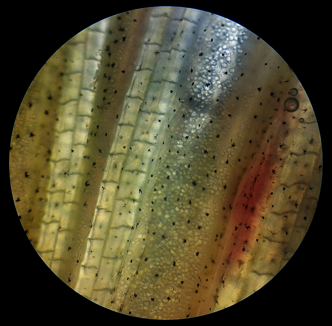 500px provided description: Fin of common carp under classical light microscope. Note melanophores, black dots with melanine responsible for coloring of fish. Other photo [#fish ,#science ,#tissue ,#cell ,#biology ,#microscope ,#fin ,#carp ,#microscopy ,#chromatophores ,#melanophores ,#xanthophores]